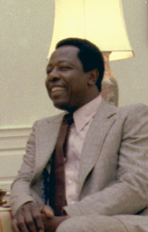 Hank Aaron, former US baseball player who set a new record of 755 homeruns, during a visit to the White House on August 15, 1978.